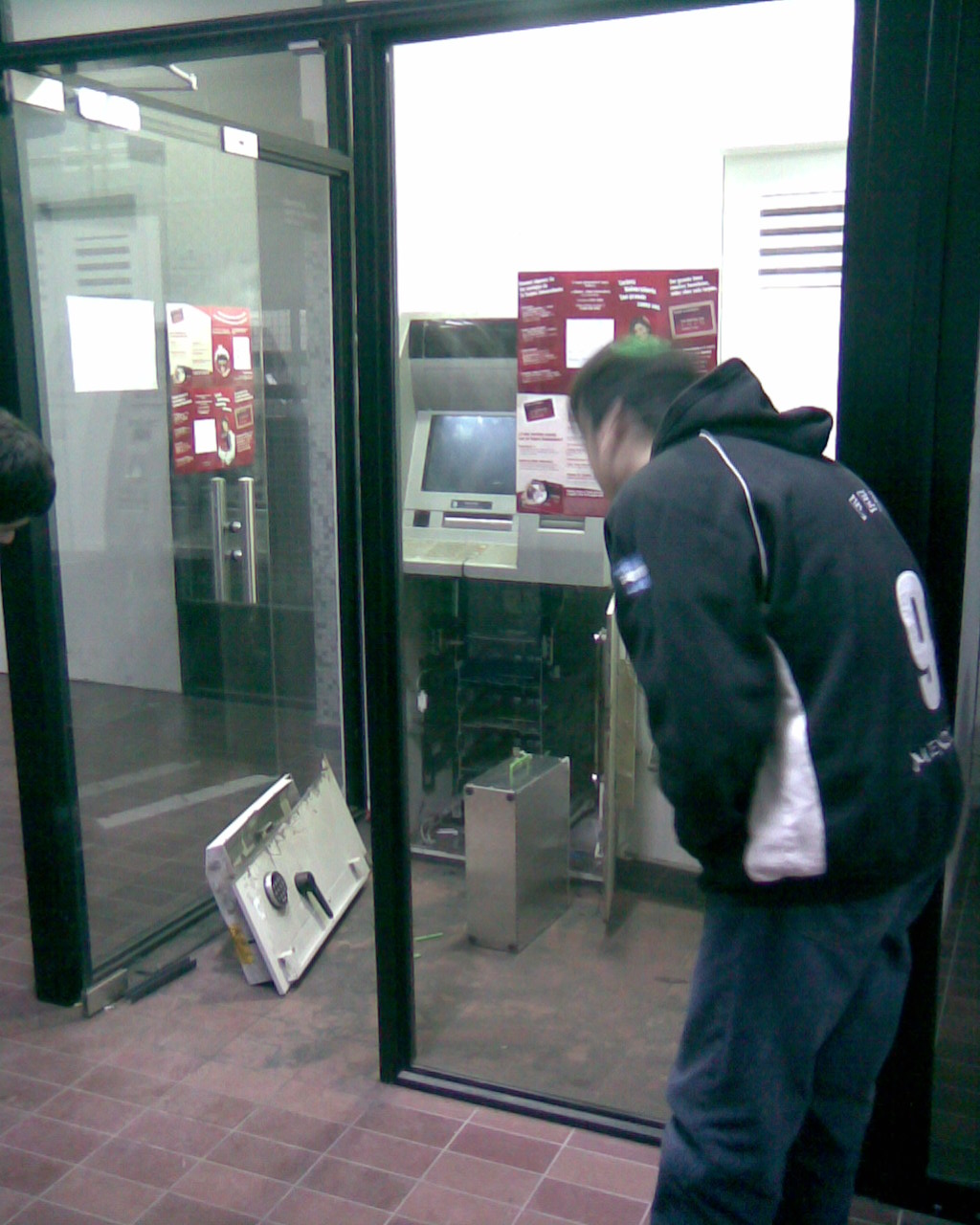 This is a Wincor Nixdorf Procash 2100xe Frontload that was opened with an angle grinder. Santander Rio Bank. UTN - Facultad Regional Mendoza